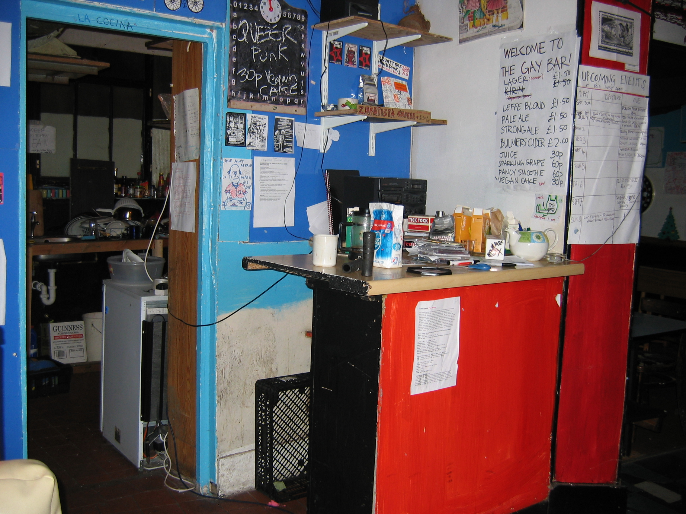 The bar of Camberwell Squatted Centre, a social centre in Camberwell, South London